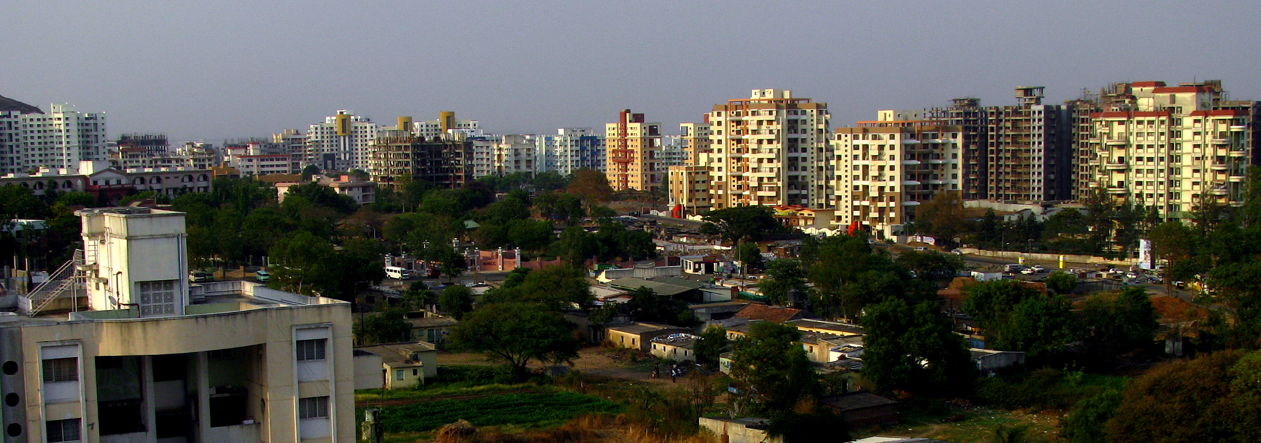 Pashan Skyline.